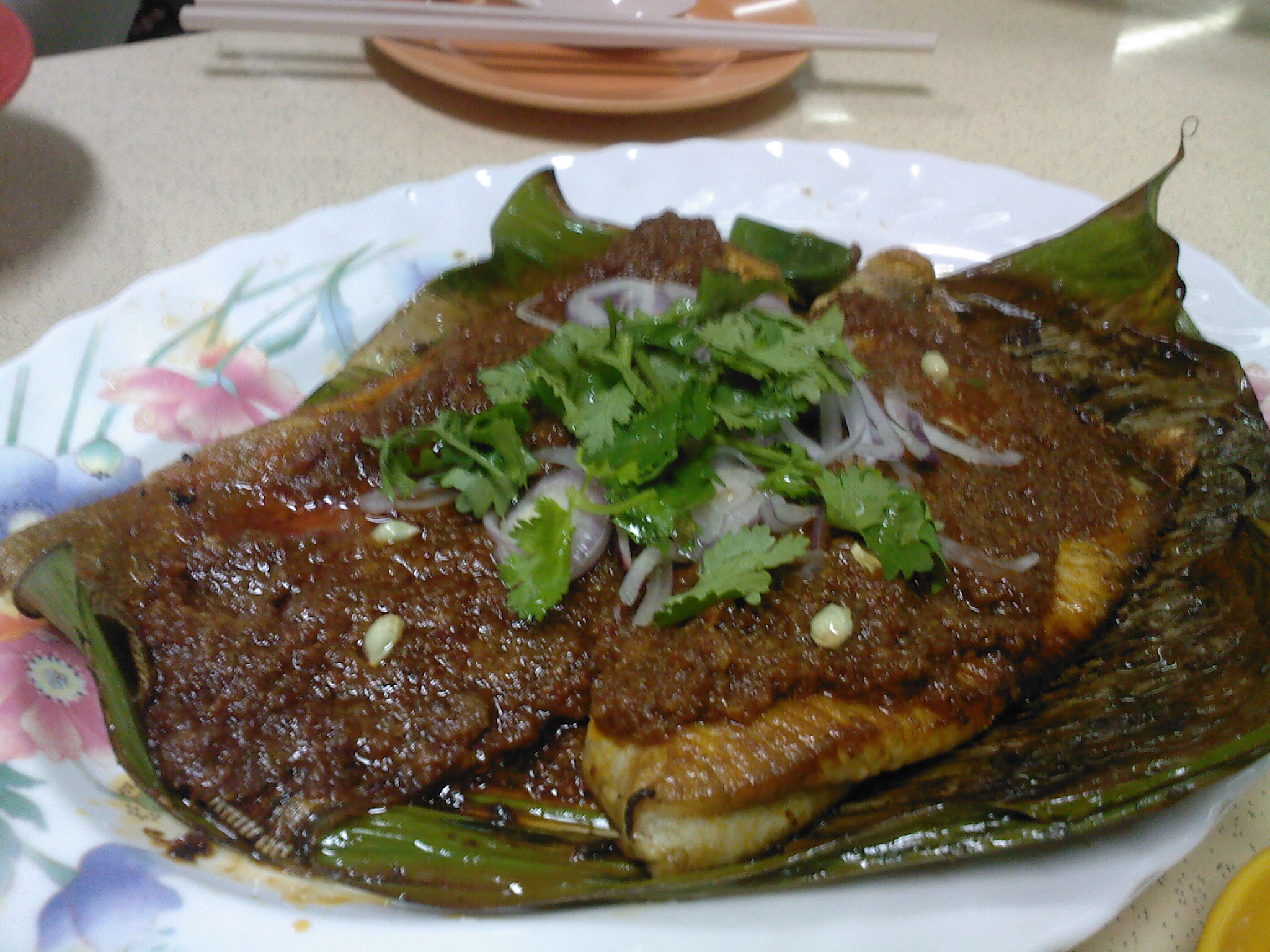 BBQ Stingray